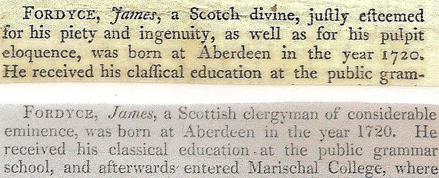 An exemplary article, showing the archaic usage Scotch as an adjective, as it appeared in the 4th edition (1800) and modernized in the 7th edition (1829), of Encyclopedia Britannica, Edinburgh, Scotland.